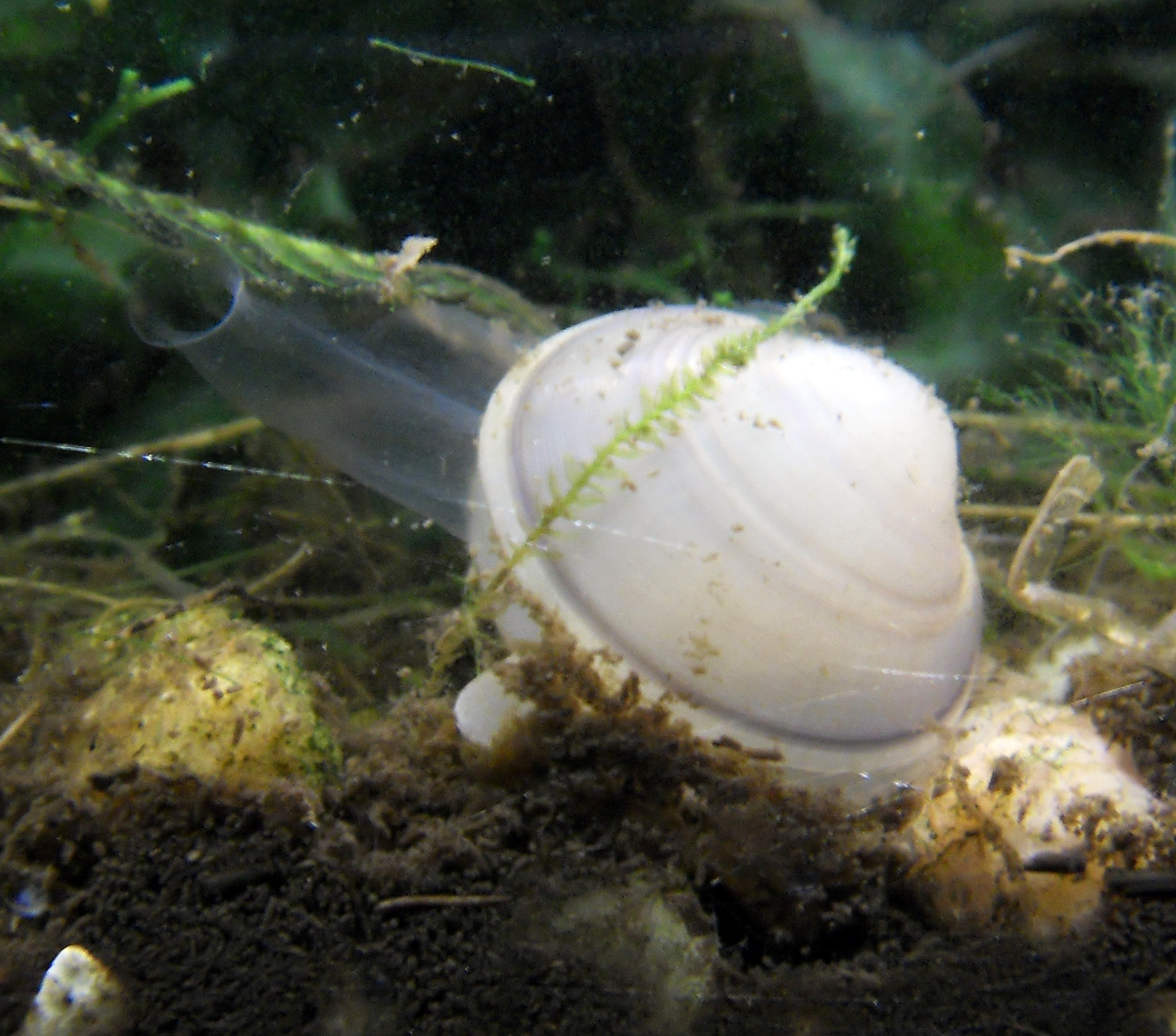 Sphaerium sp., fingernail clam